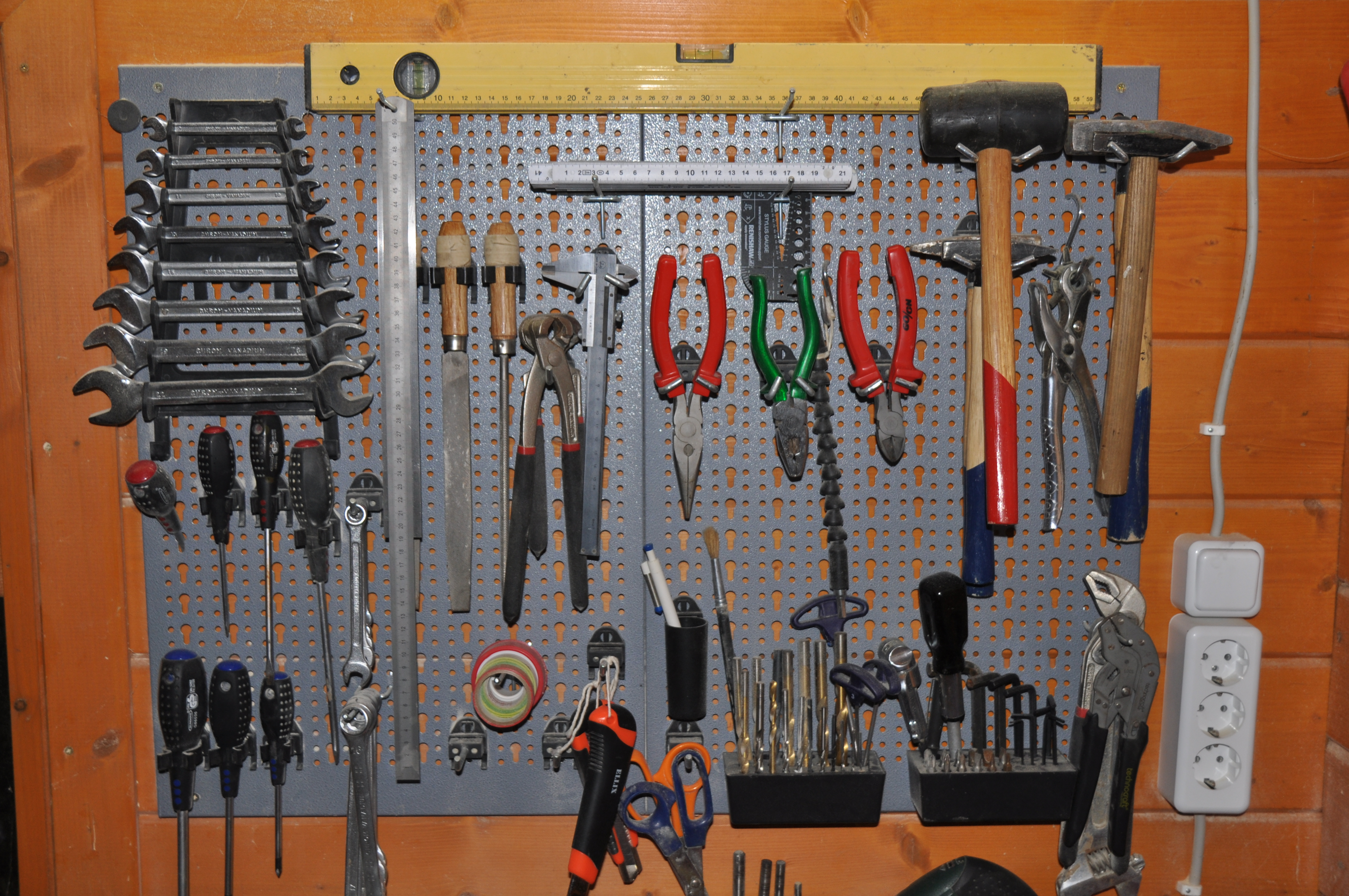 Tool display wall for sorting tools and easy acess